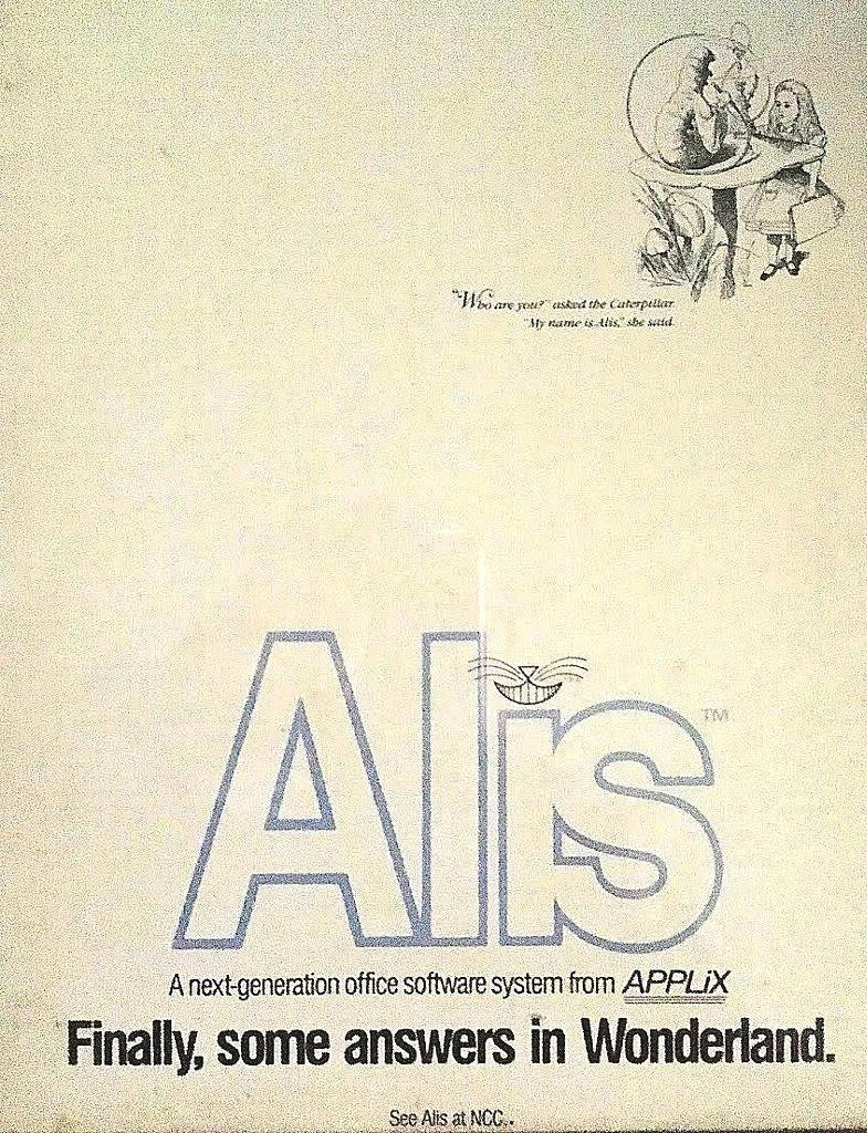 Alis office automation promotional poster